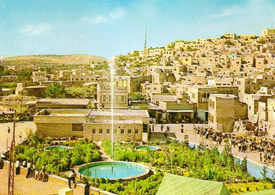 Hebron, Palestine - 1960's